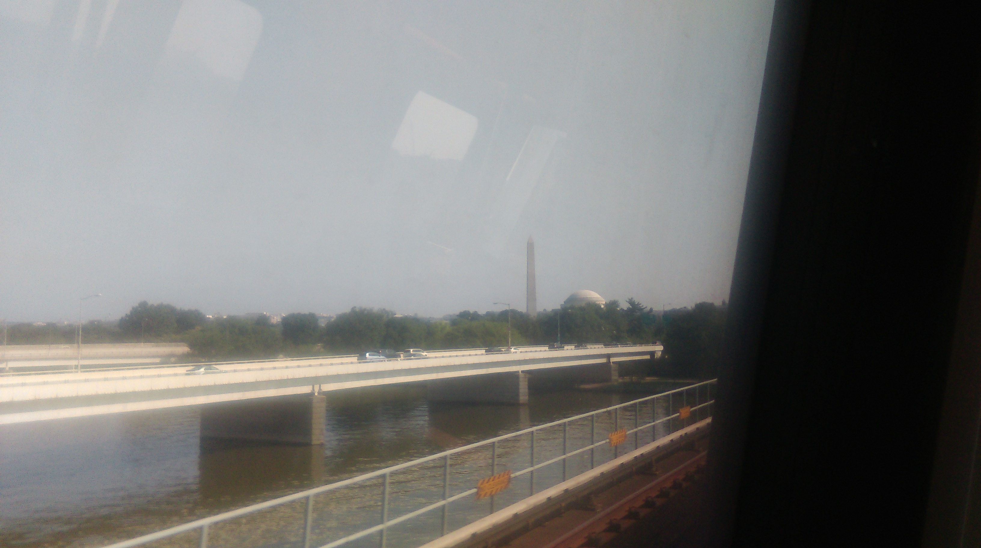 A view of the Washington Monument and Jefferson Memorial while crossing into Washington on the Yellow Line